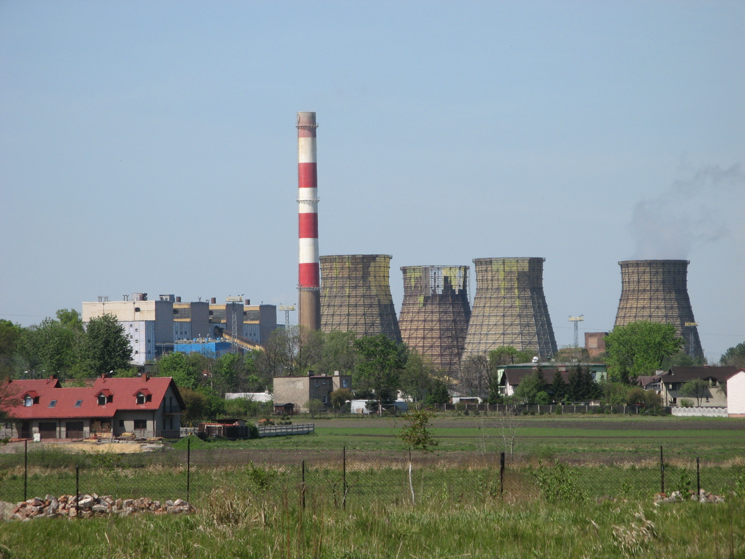 Ruda Śląska, Stara Kuźnia, power plant Halemba